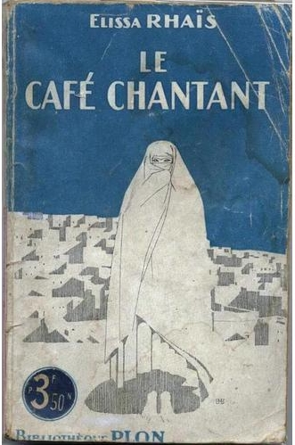 Cover of the book: Le Café chantant written by Elissa Rhais, édited by Plon in 1920